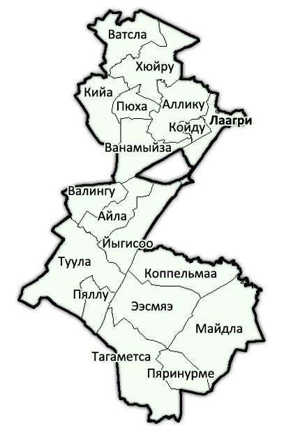 Administrative and settlement units of Saue Parish